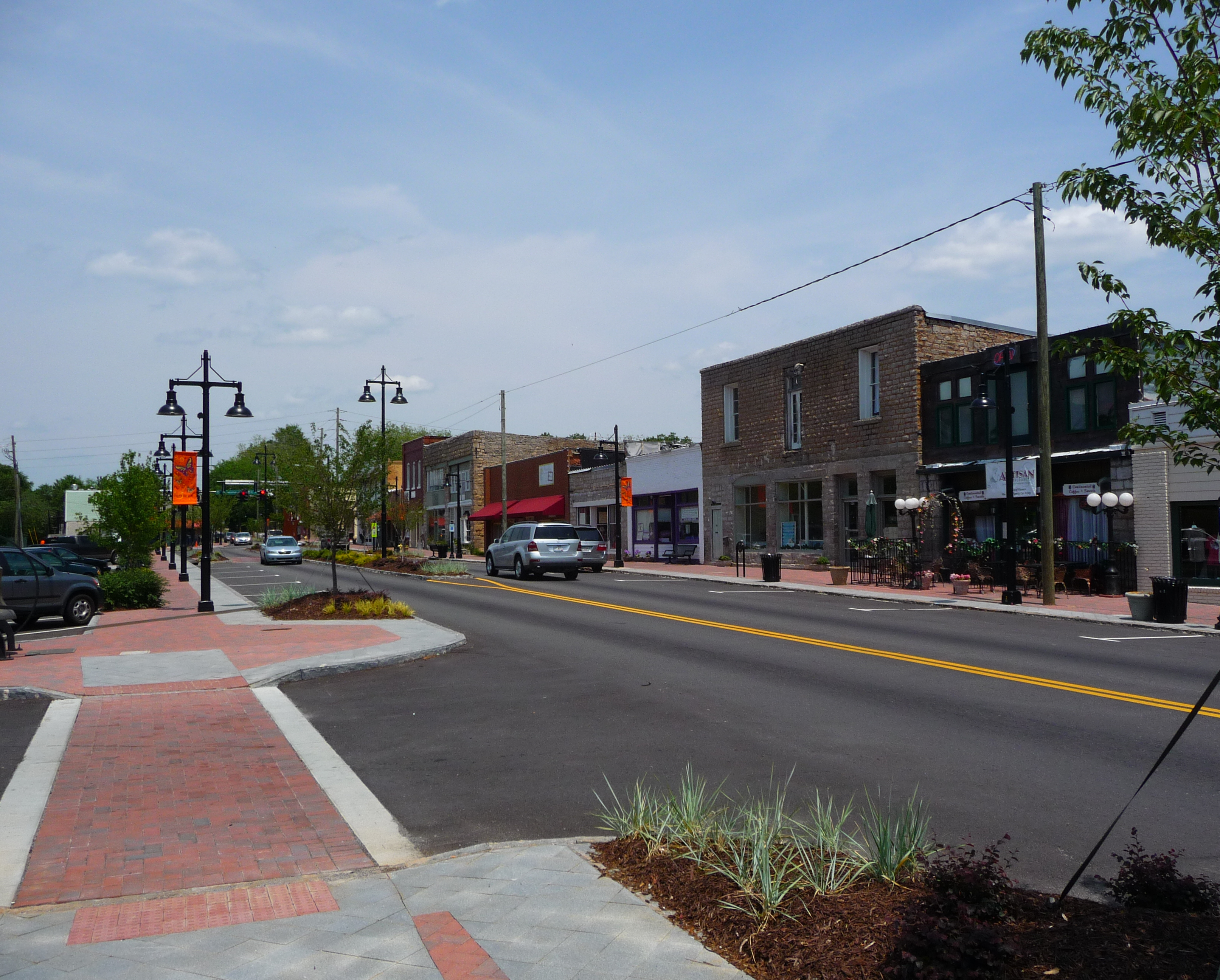 Stone Mountain, Georgia downtown